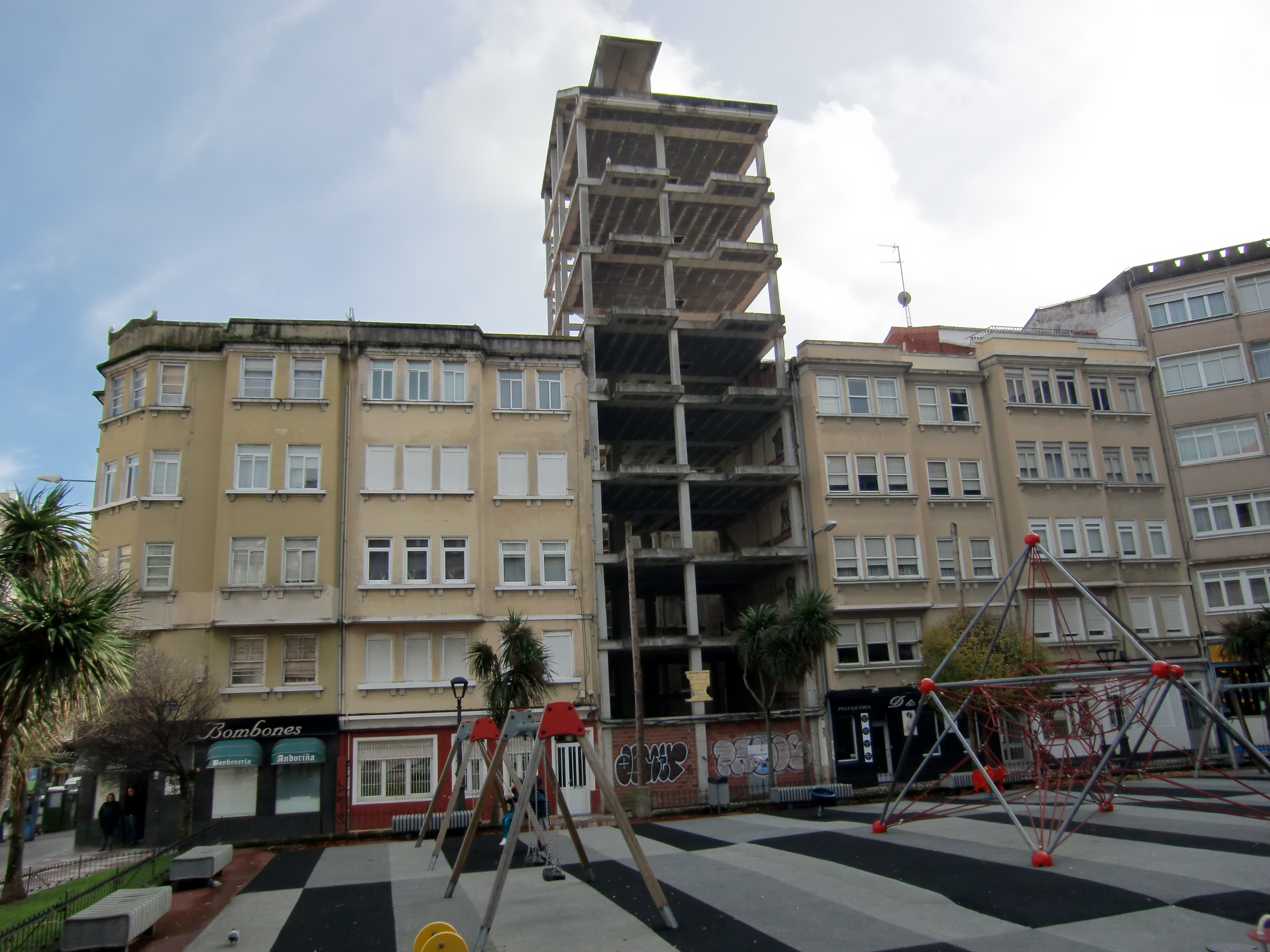 Real Estate Bubble in Spain 1997 - 2007. Abandoned building site in Padre José Rubinos square, A Coruña, Spain.